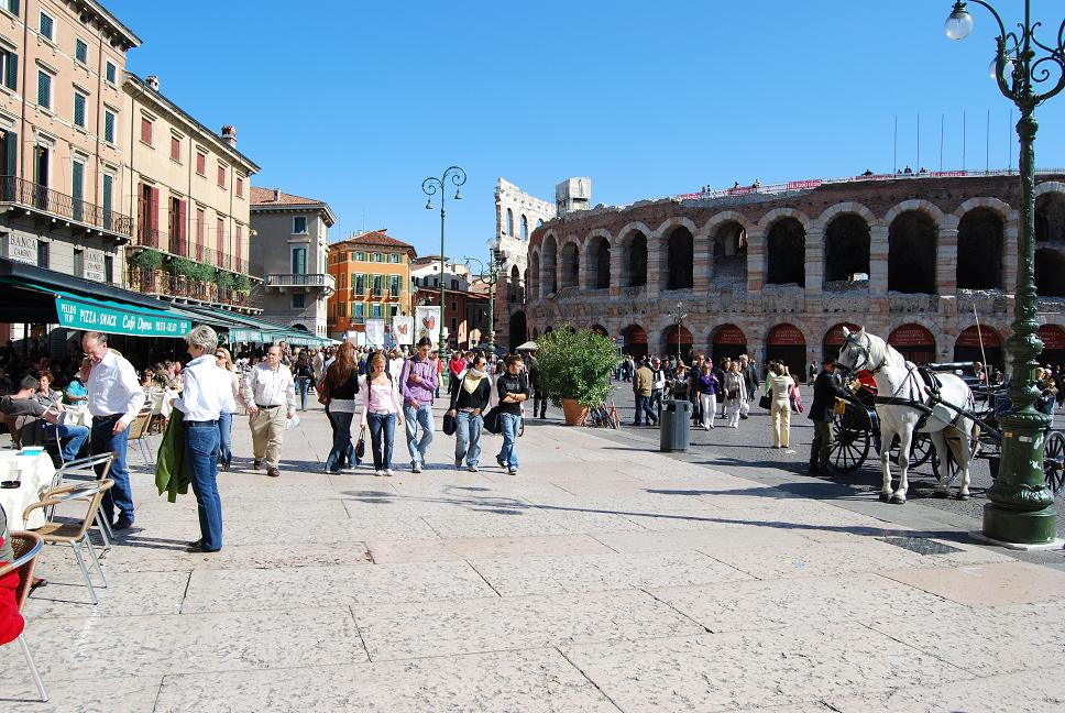 Piazza Bra with the Arena